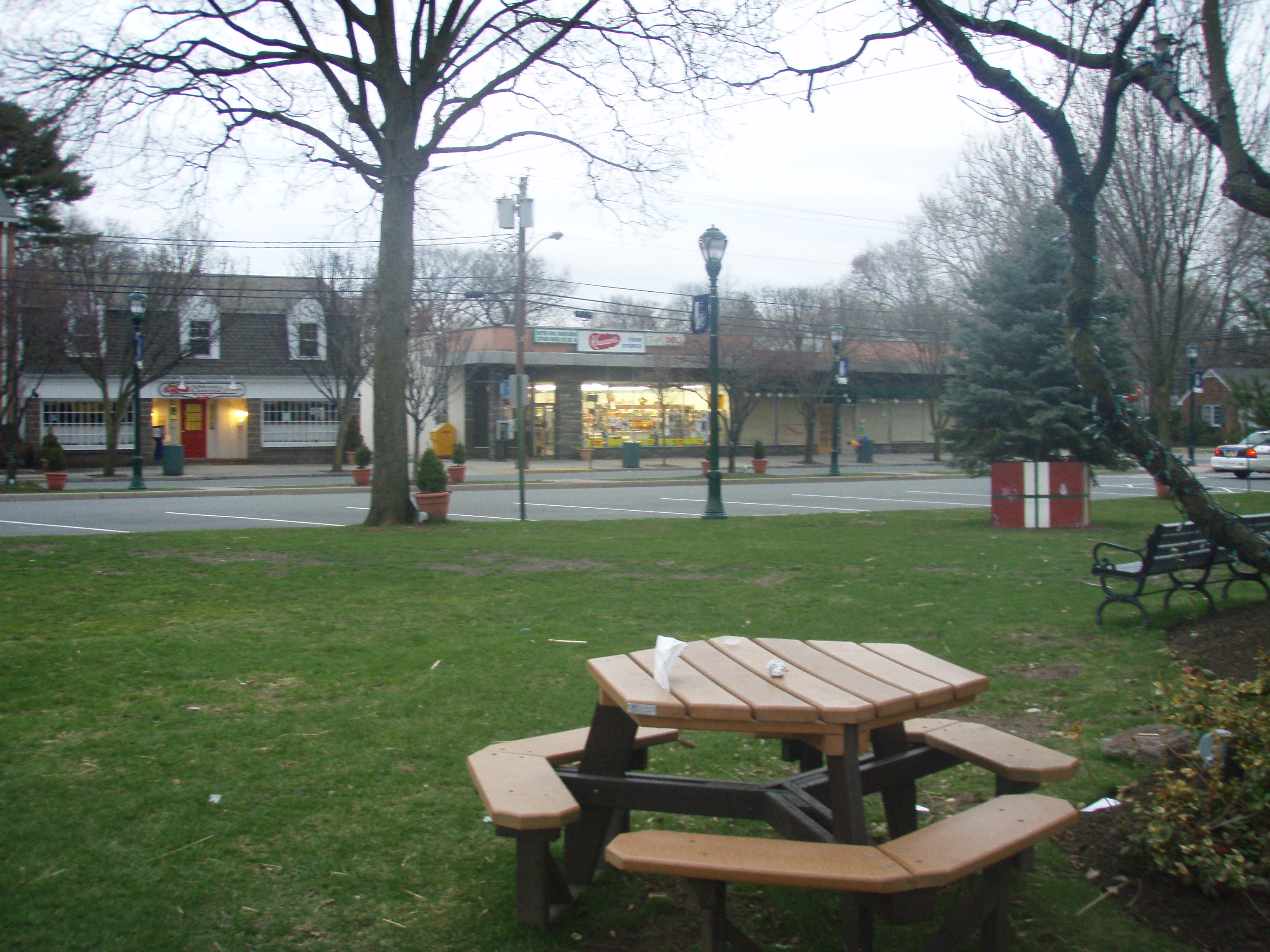 downtown Ho-Ho-Kus, New Jersey